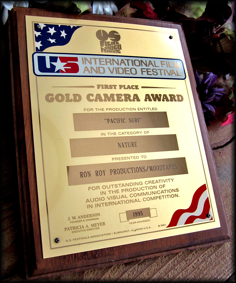 The "Gold Camera" Award (1st place) at the US International Film and Video Festival Awards in 1995 (Moodtapes album).